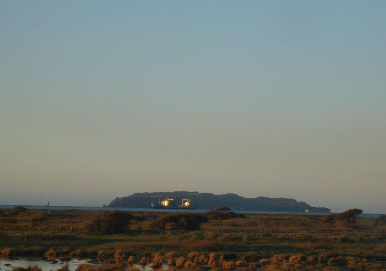 Quiriquina Island